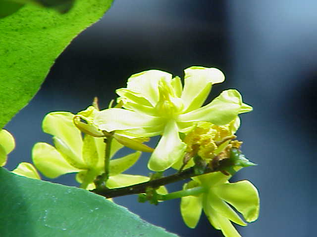 Species: Campylospermum schoenleinianum (= Ouratea schoenleiniana) Family: Ochnaceae Image No. 2